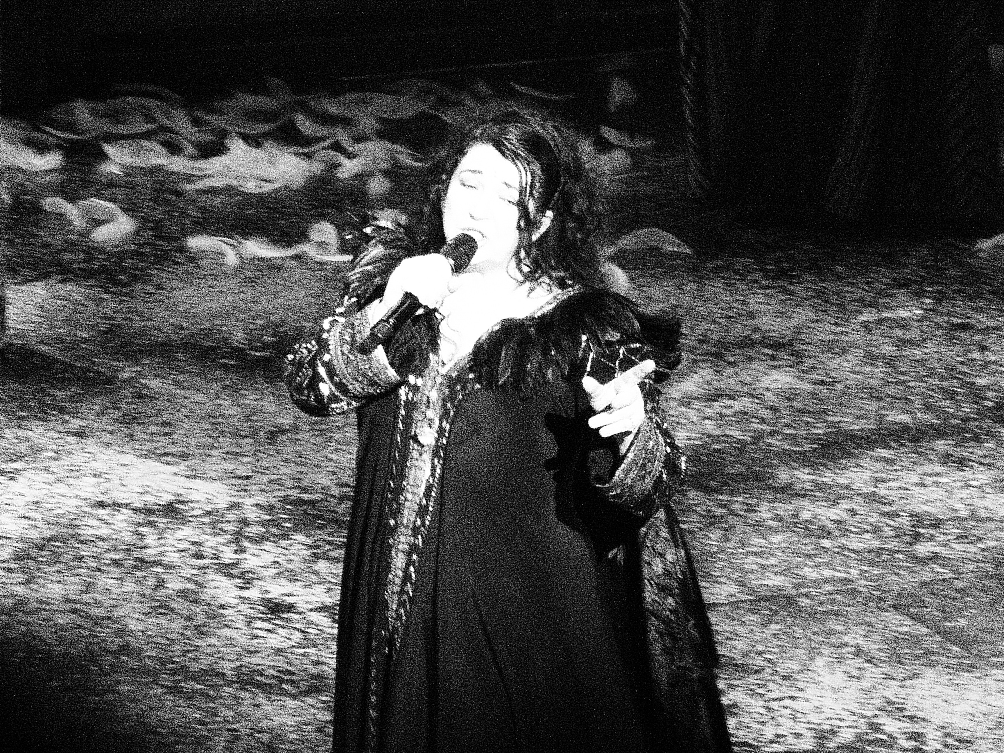 Kate Bush - last song, last night of the tour, best show ever.